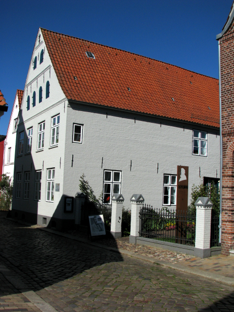 Residential house of german writer and novelist Theodor Storm in the city of Husum. Today it is a museum